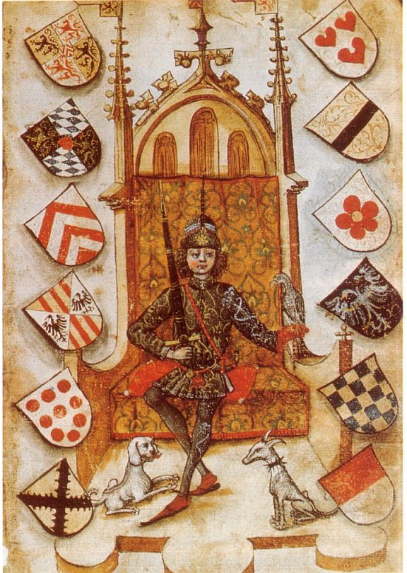 Duke Gerard II. of Jülich-Berg. Founder of the Order of Knight of St. Hubertus after the Battle of Linnich, Germany in 1444.